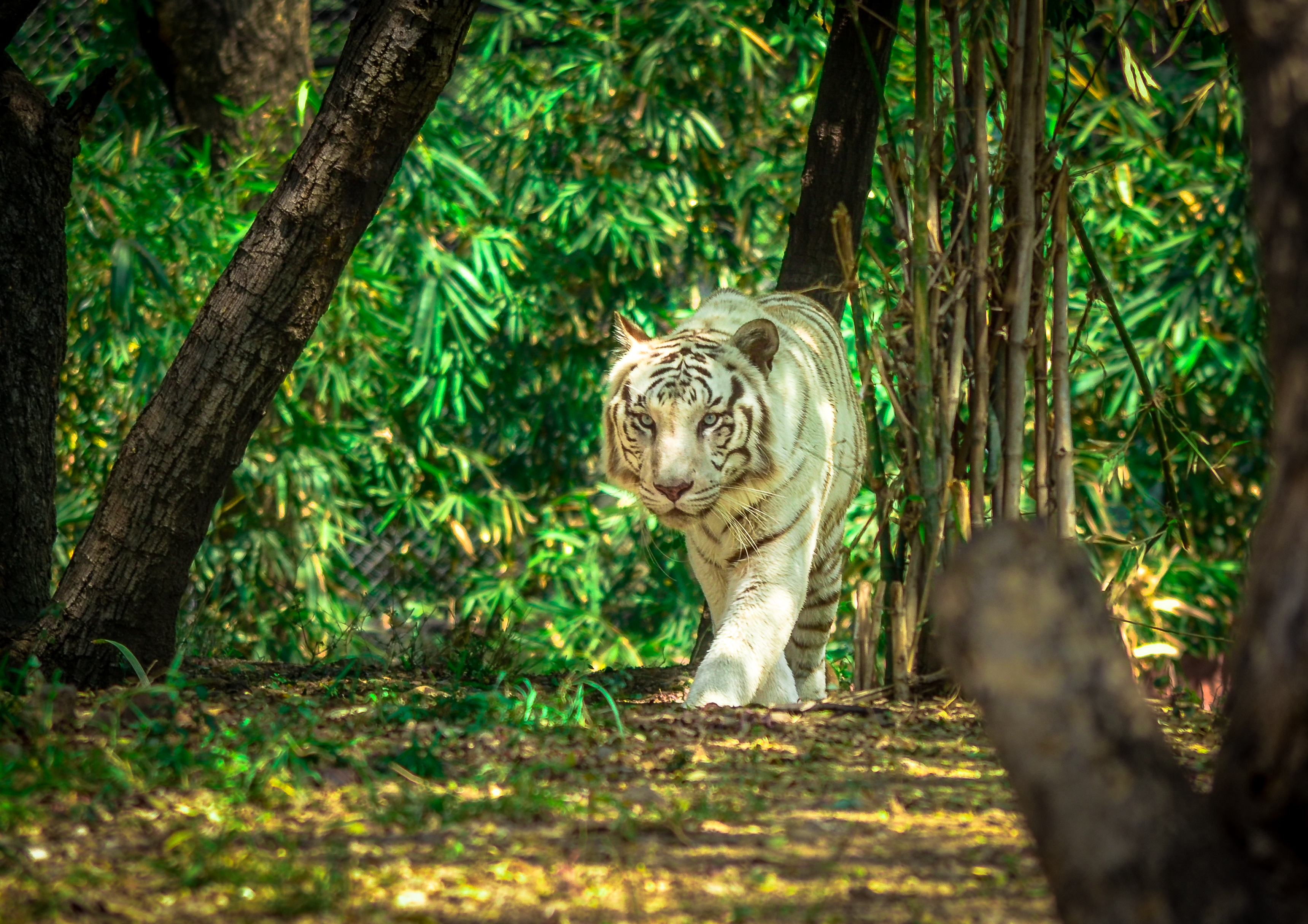 The white tiger is a pigmentation variant of the Bengal tiger, which is reported in the wild from time to time in the Indian states of Assam, West Bengal and Bihar in the Sunderbans region. This picture is clicked at Nehru Zoological Park in Hyderabad.